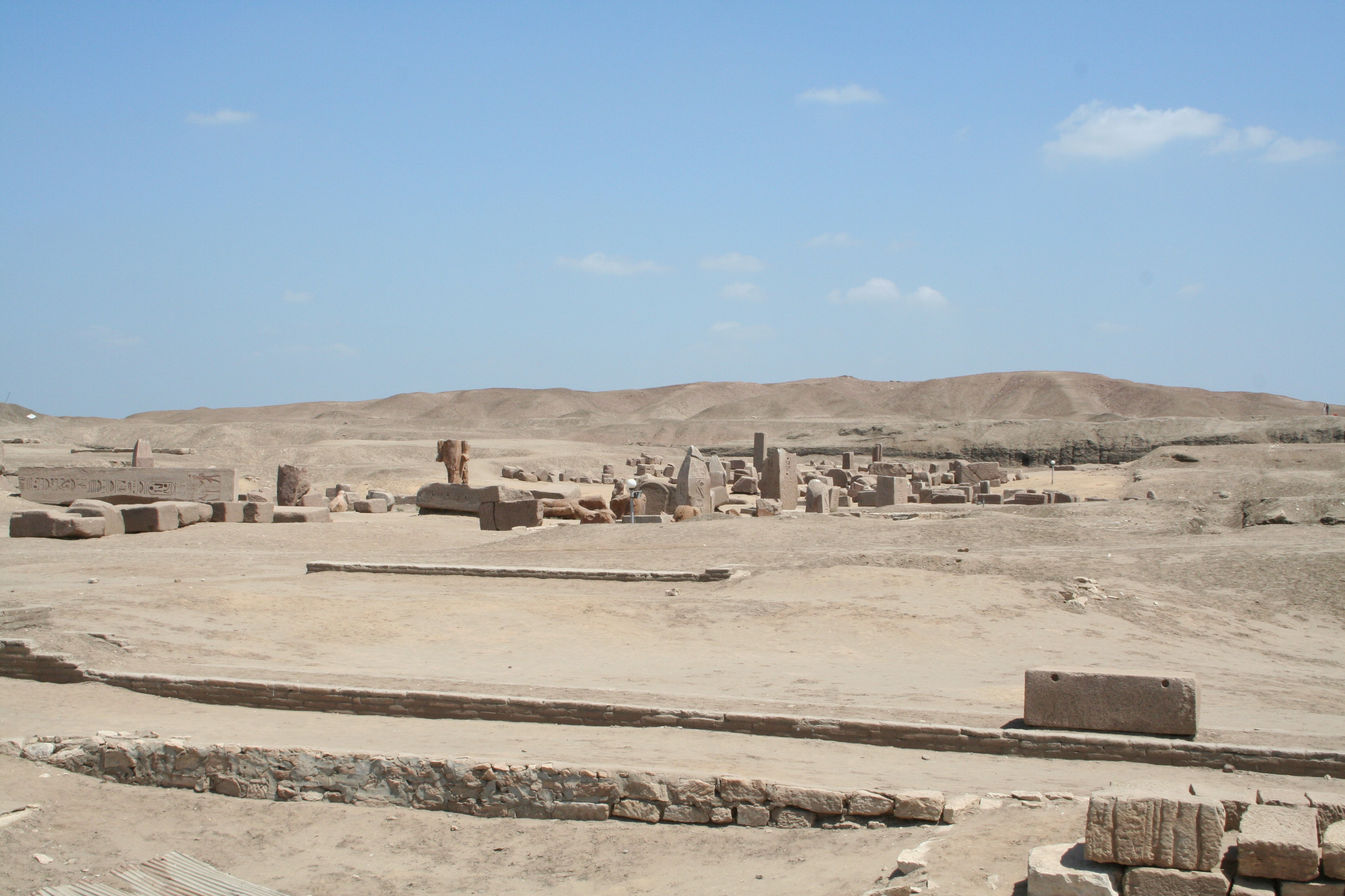 Tanis